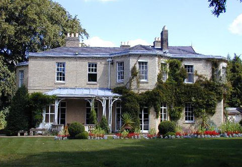 A picture of the central manor house at Fitzwilliam College, Cambridge